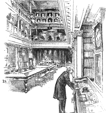 Interior, NY Society Library